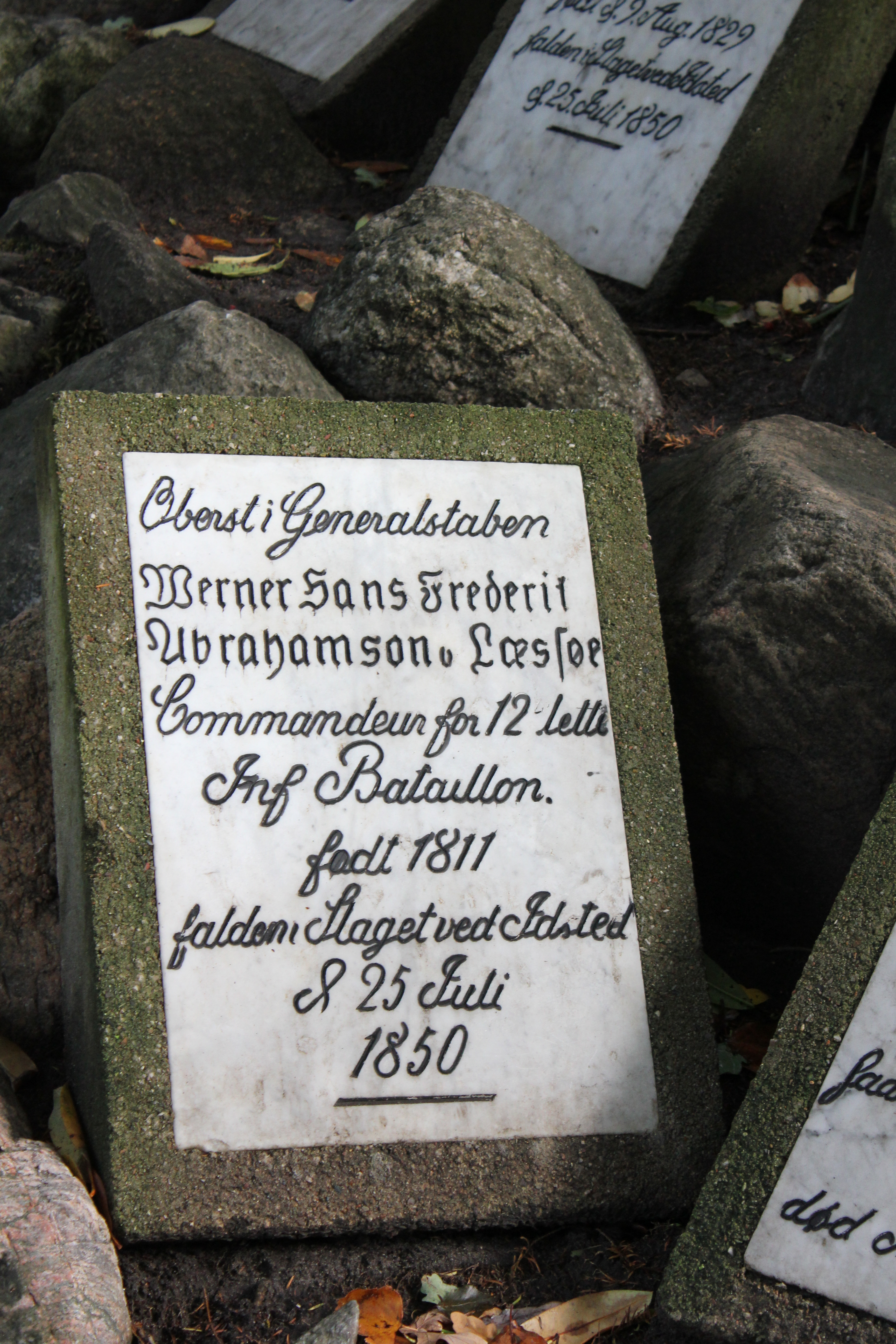 The gravestone of Frederik Læssøe on the old cemetery in Flensburg(h), which is opposite of the guarding Flensburg Lion.